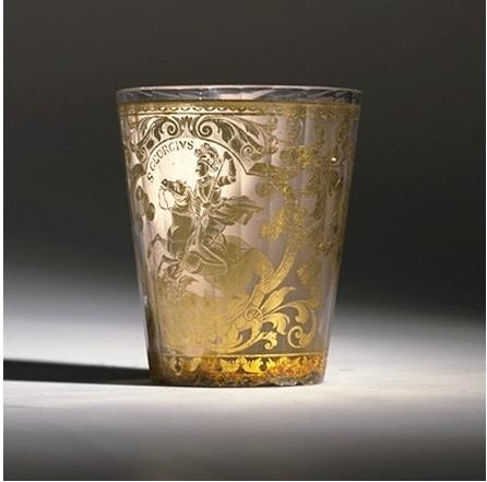 Beaker made using the ‘Zwischengoldglas’ technique, mid 18th century V&A Museum no. 1271-1872 Techniques - Double glass, with engraved gold foil Artist/designer - Unknown Place - Bohemia, Czech Republic Dimensions - Height 9.0 cm This beaker is made in the so-called ‘Zwischengoldglas’ technique, a very difficult and time-consuming process that made the products extremely expensive. The glass-makers carefully ground and polished two glass cups, so that the inner cup would fit exactly into the outer. They covered the outside of the inner cup with gold leaf, which they then engraved with a design. After decoration, the glass-maker would stick the two cups together and carefully seal them at the top to make the resultant beaker waterproof and fit for use. This piece is decorated with the Christian hero St George and the evil dragon he defeats, here depicted among scrolls and grotesques. A separate glass disc in the base is decorated with the sacred monogram 'IHS', also in engraved gold leaf, and backed with ruby lacer. The decoration indicates that the beaker originally had some religious function. ‘IHS’ is usually interpreted (in Latin) as ‘Iesus Hominum Salvator or ‘Jesus, Men’s Saviour’, but given the imagery here, may mean ‘In Hoc Signo (vinces)’, or ‘In this sign (thou shall conquer)’.